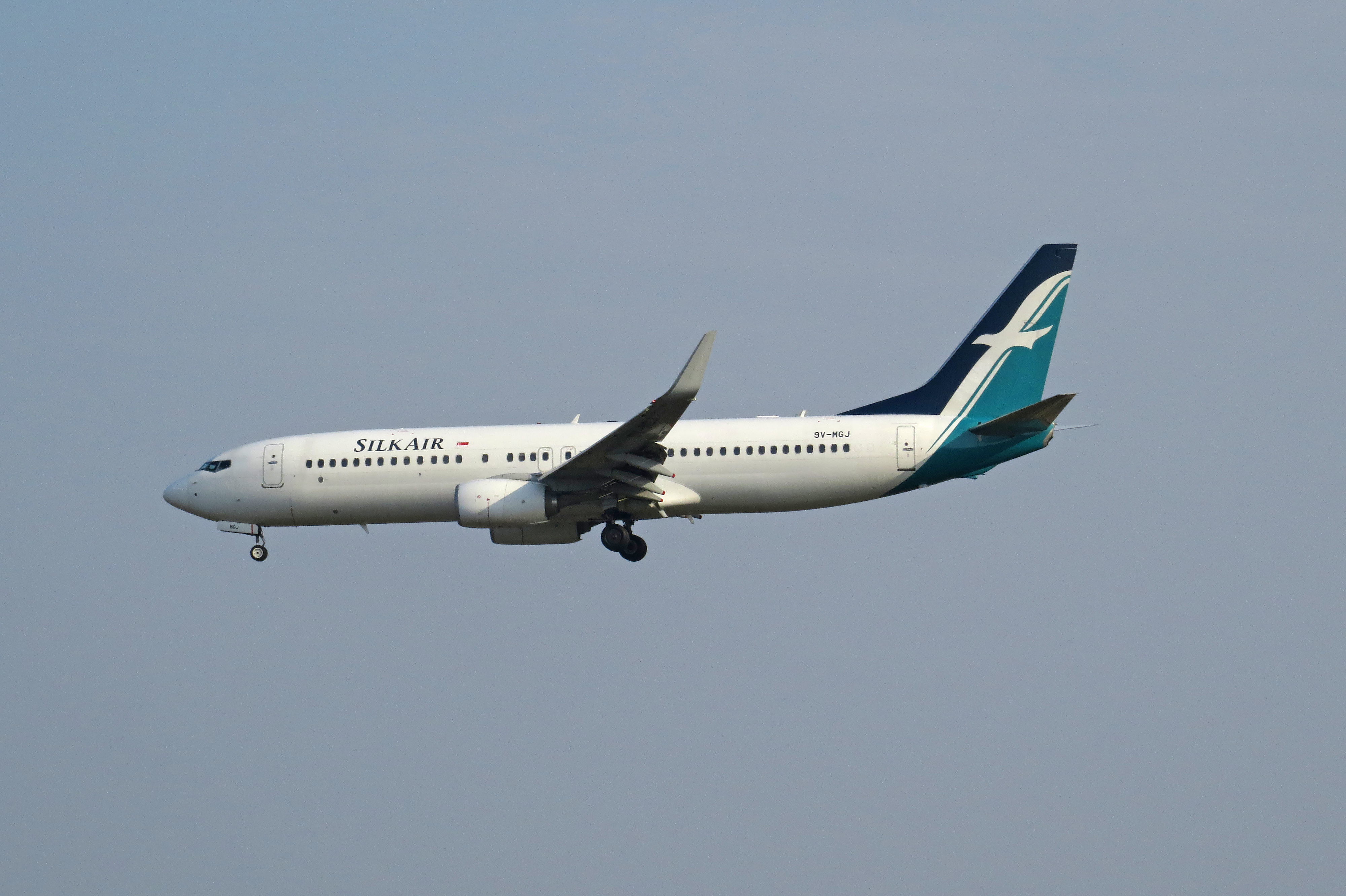 Silkair 990 from Singapore. Nothing to remind of.